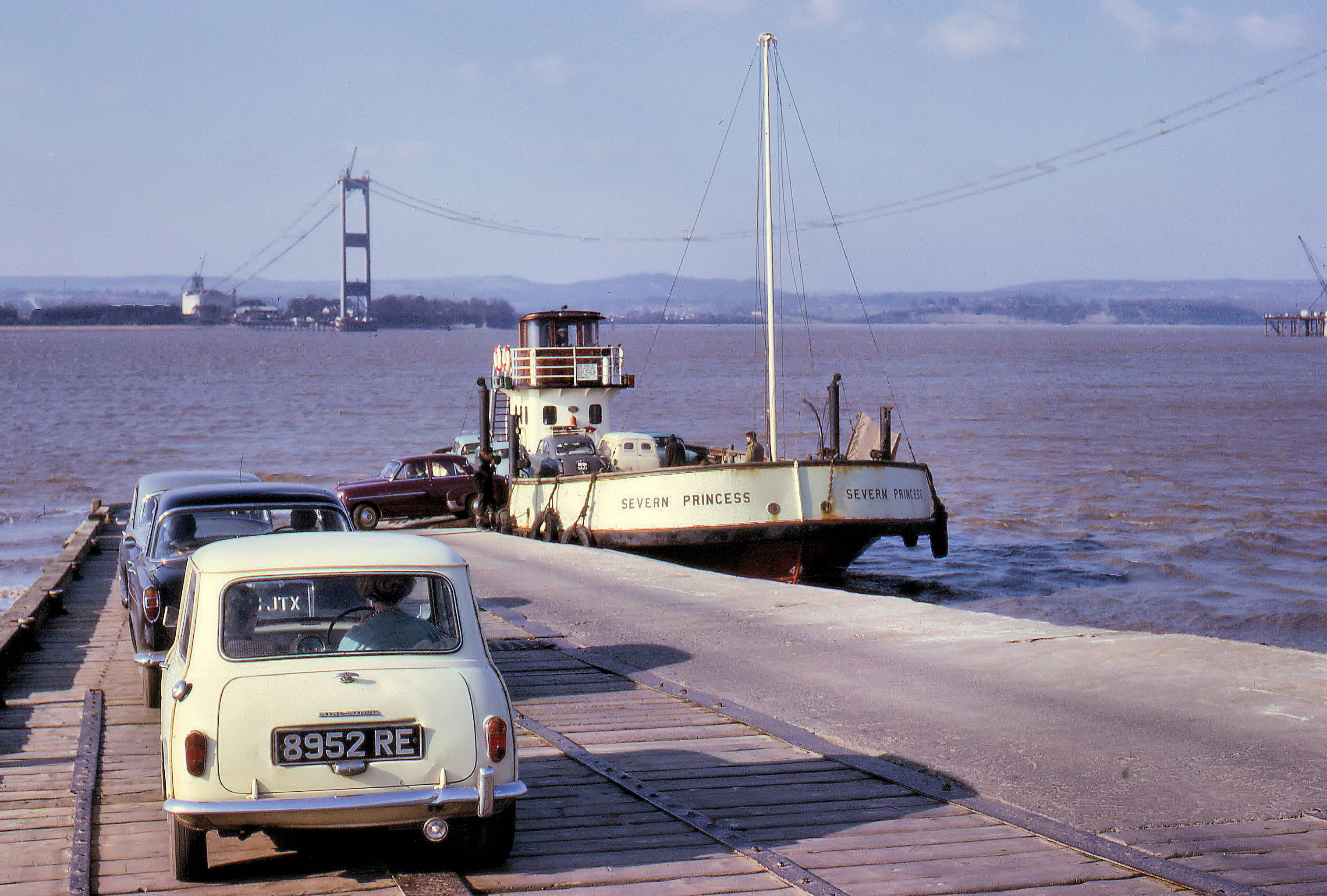 The English end of Aust Ferry, at Aust, in 1964. The view looks across the River Severn to Wales. The Severn Bridge is being constructed but has no roadway yet. From 11 February 1931, a ferry service was operated by the Old Passage Severn Ferry Company Ltd between Beachley and Aust. Services, first carrying just foot passengers and bicycles, and later extended to cars, operated until 1966, when the Severn Bridge opened and there was no longer any need for the crossing.